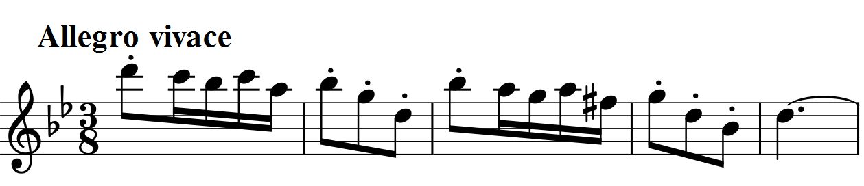 Felix Mendelssohn-Bartholdy, Midsummer Night's Dream, Scherzo, section of the violin part